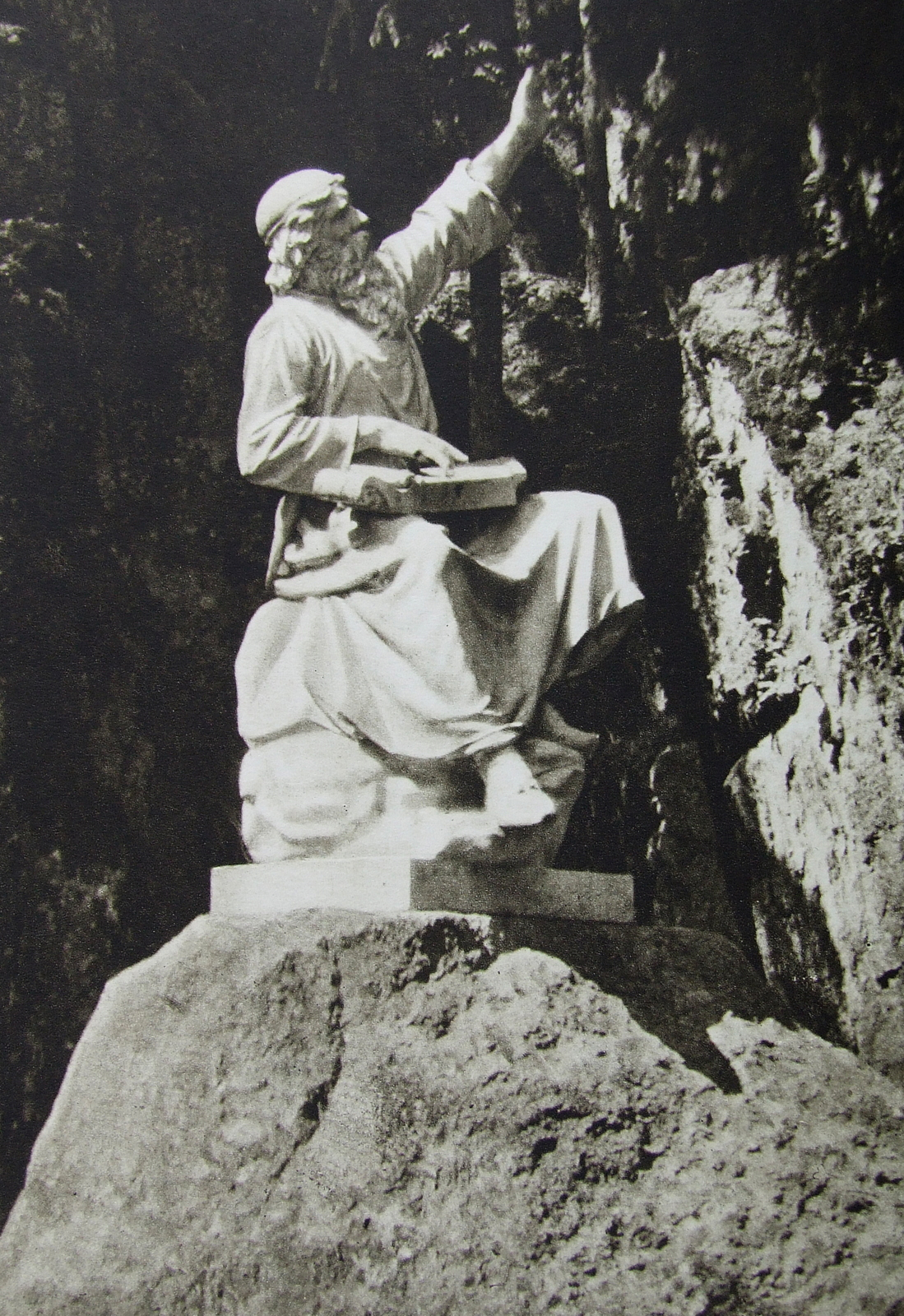 The statue Väinämöinen singing was situated in Monrepos park in Vyborg. The zinc statue was destroyed in World War II.